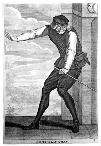 Gaultier-Garguille, etching by John Collins. Ashmolean Museum (Oxford)